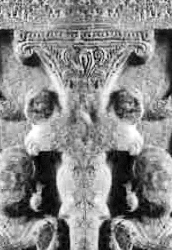 Splayed pillar with recumbent lions and central palmette on the Amohini ayagapata Mathura, 15 CE (mirrored image of one side from the Amohini tablet)